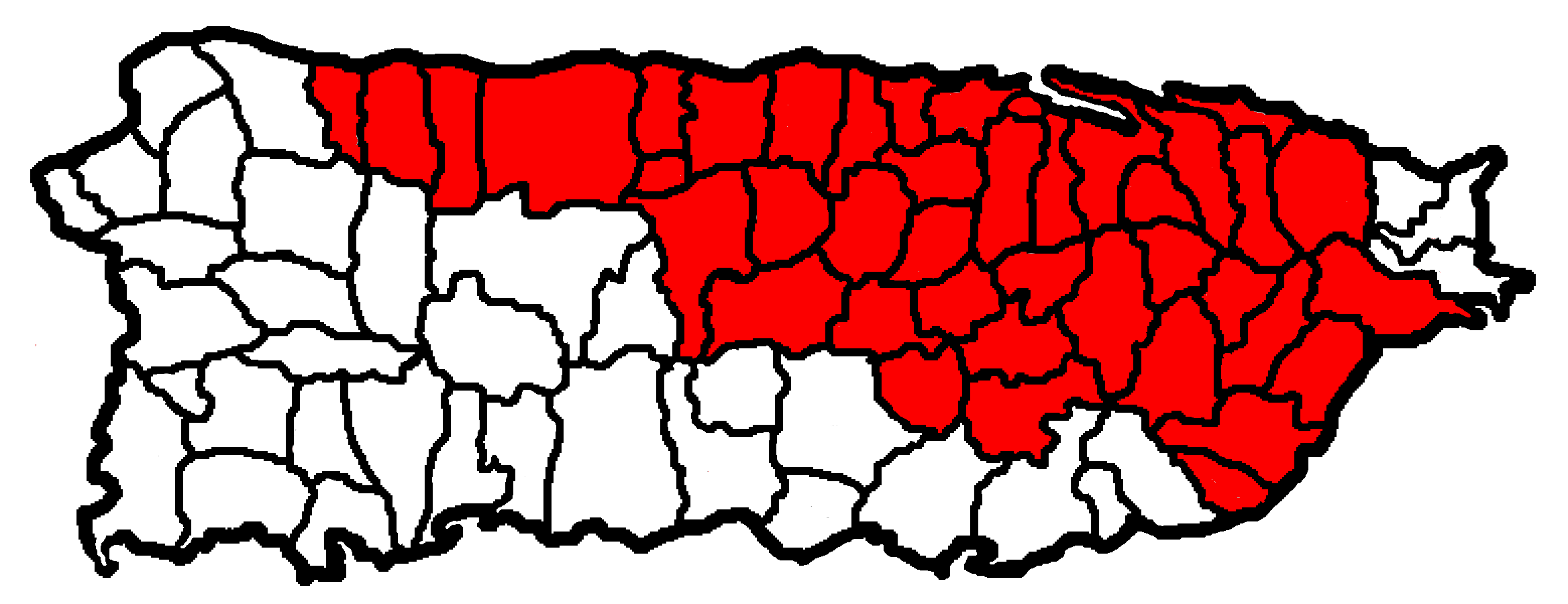 Map of Puerto Rico highlighting the San Juan-Caguas-Guaynabo Metropolitan Statistical Area.